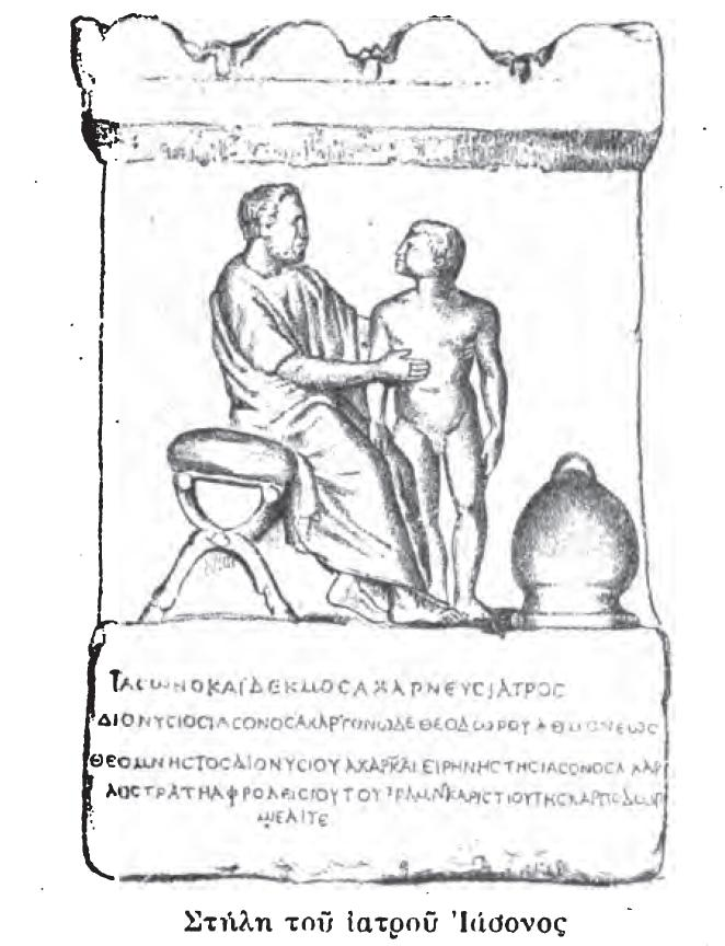 Hestia (1876) Author: Diomedes, Paulos Subject: Greek literature, Modern; Greek periodicals Publisher: Athēnēsi : s.n. Year: 1894 Possible copyright status: NOT_IN_COPYRIGHT Language: Greek Digitizing sponsor: Google Book from the collections of: Harvard University Collection: americana